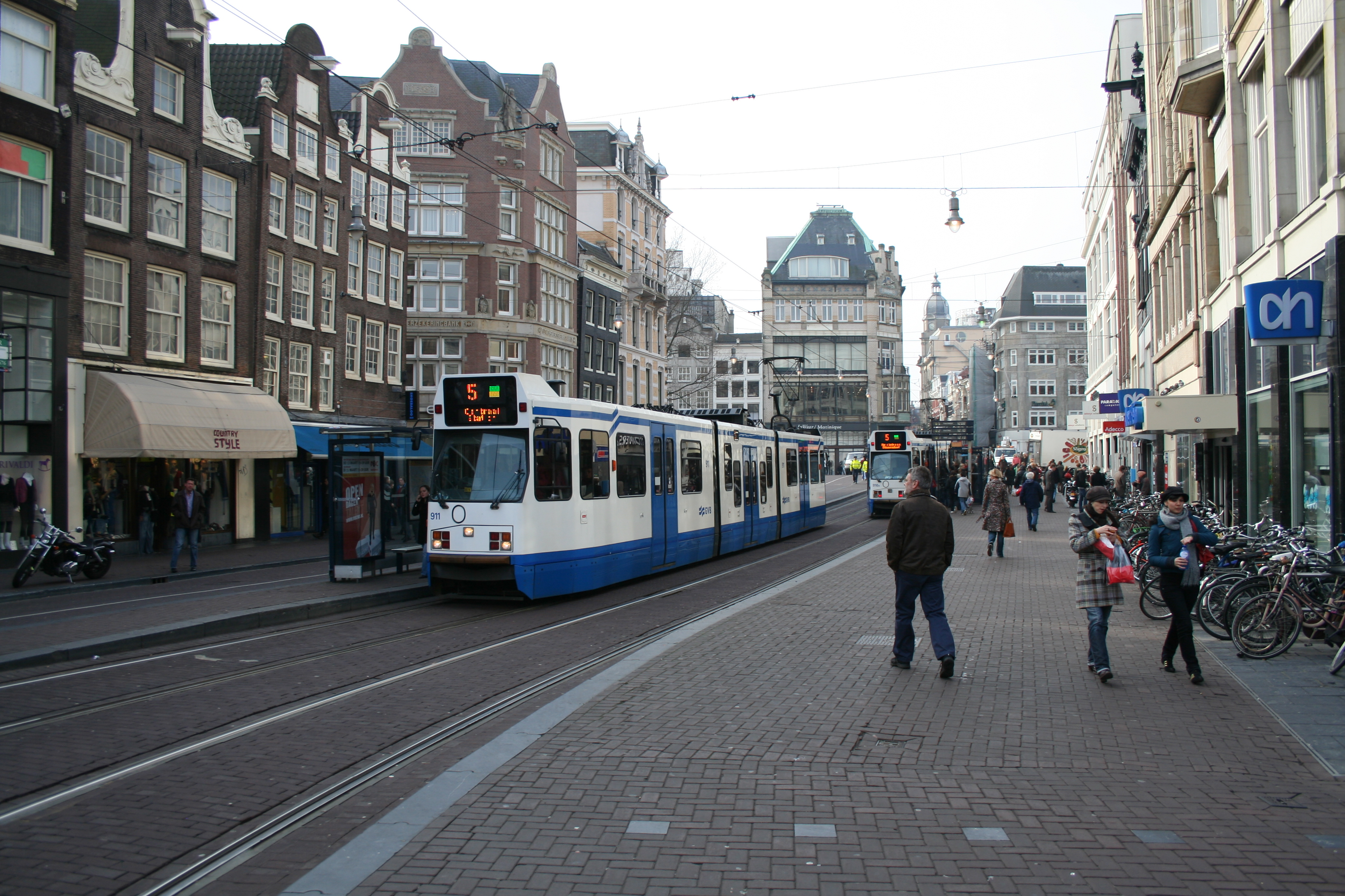 A photograph taken of the Koningsplein in Amsterdam, which is a square.